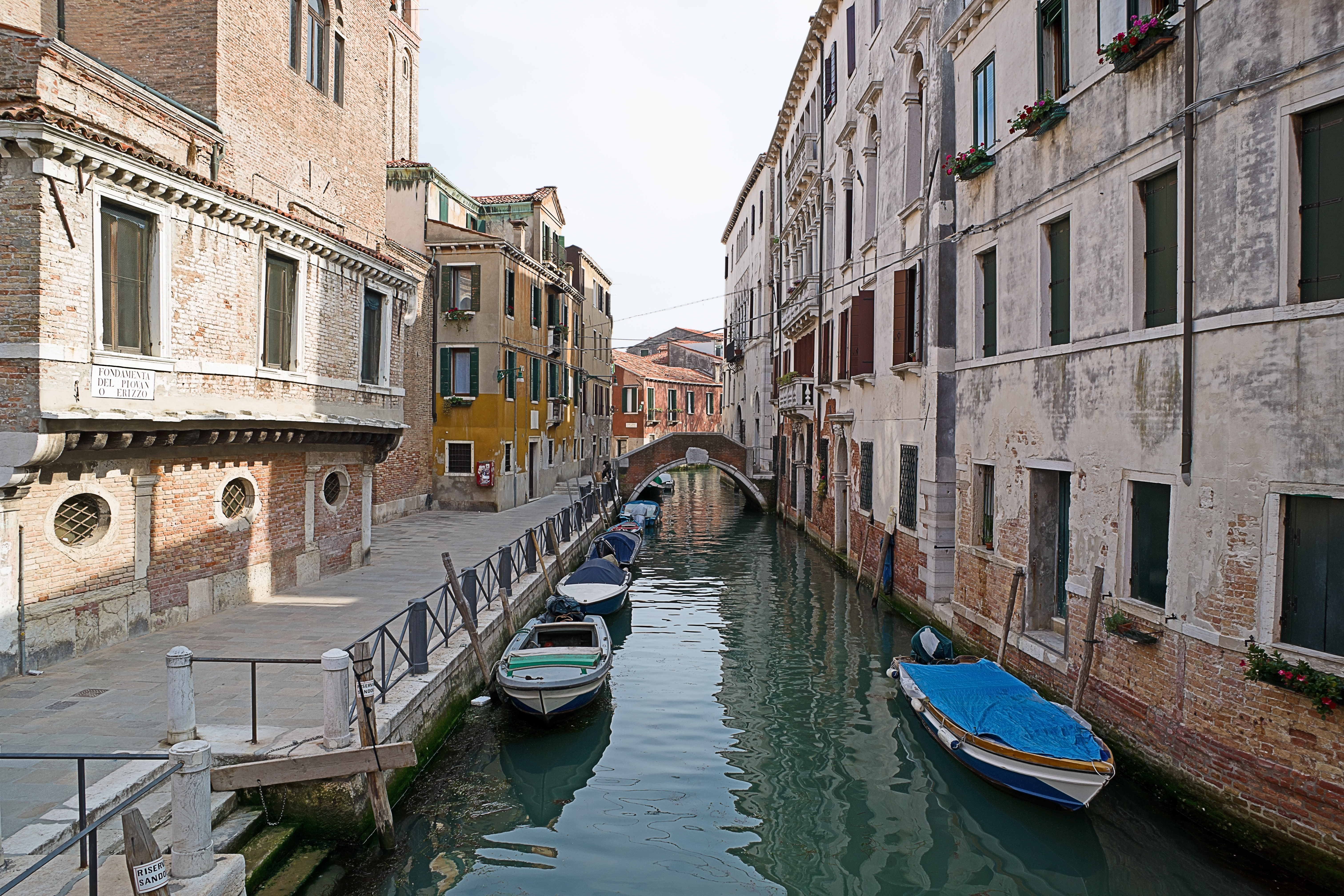 Rio de la Ca’ di Dio viewed from ponte Storto to ponte Erizzo.